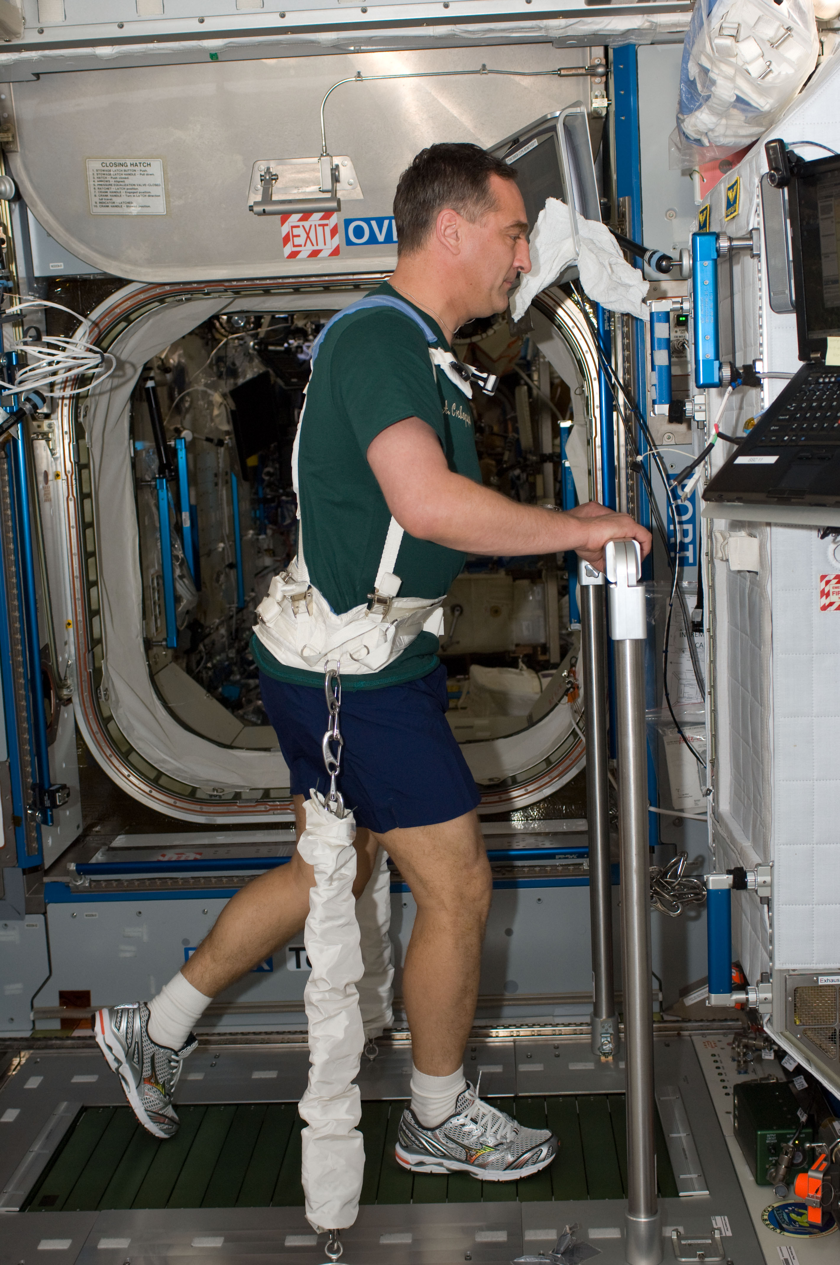 Russian cosmonaut Alexander Skvortsov, Expedition 23 flight engineer, equipped with a bungee harness, exercises on the Combined Operational Load Bearing External Resistance Treadmill (COLBERT) in the Harmony node of the International Space Station while space shuttle Discovery remains docked with the station.